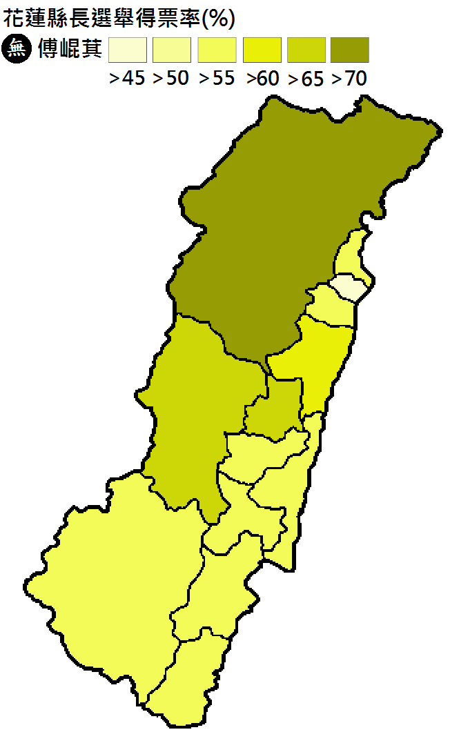 Hualien magistrate election 2009